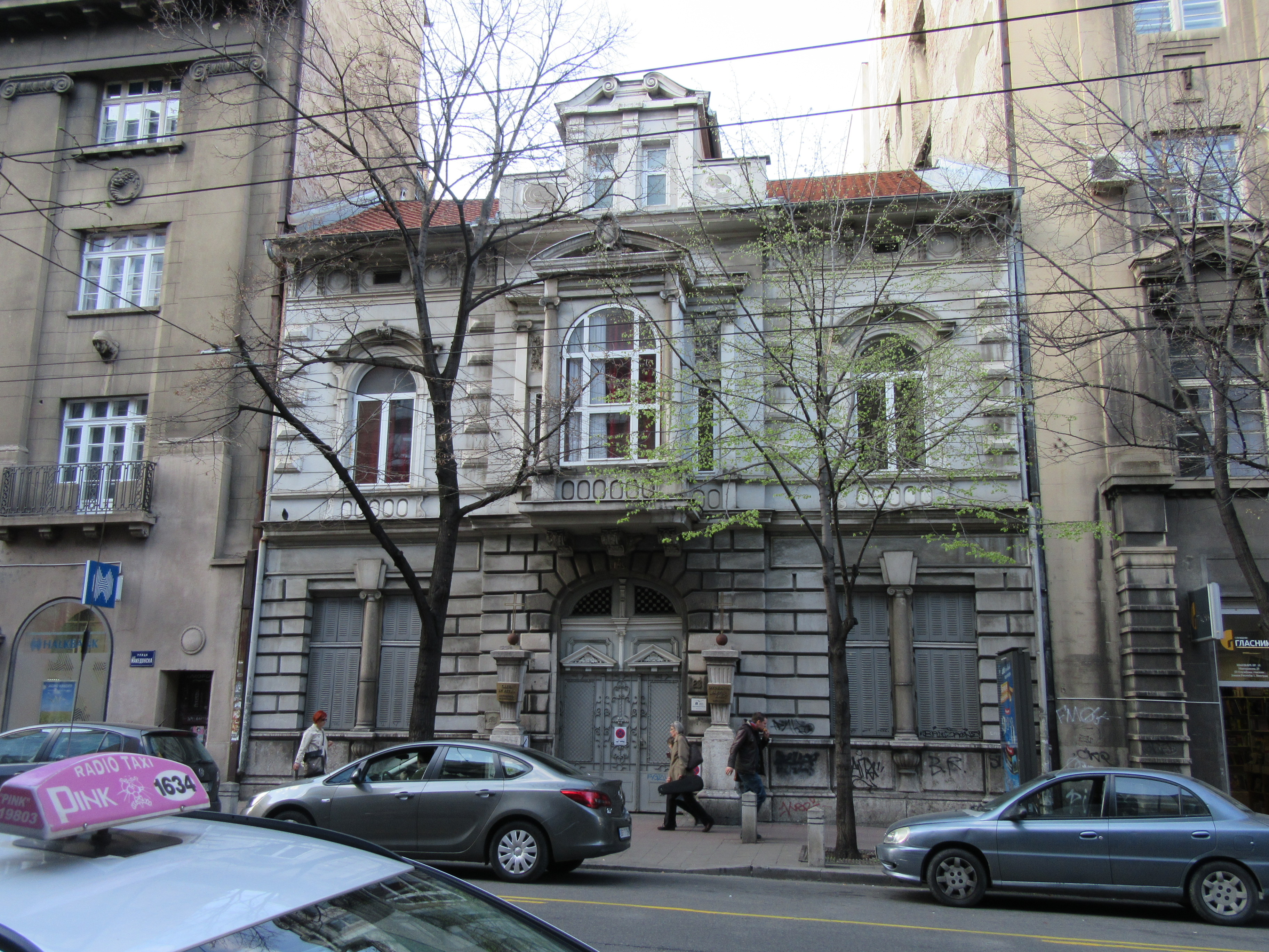 Church of St. Apostle Peter, Makedonska street, Belgrade, Serbia, 2019. Srpski (latinica): Crkva Sv. apostola Petra, Makedonska ulica, Beograd, Srbija, 2019.